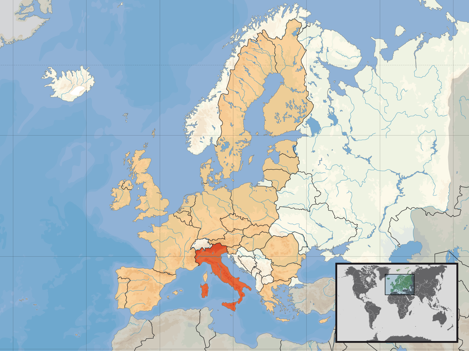 Location of Italy within Europe and the European Union on the 1st of January 2007.